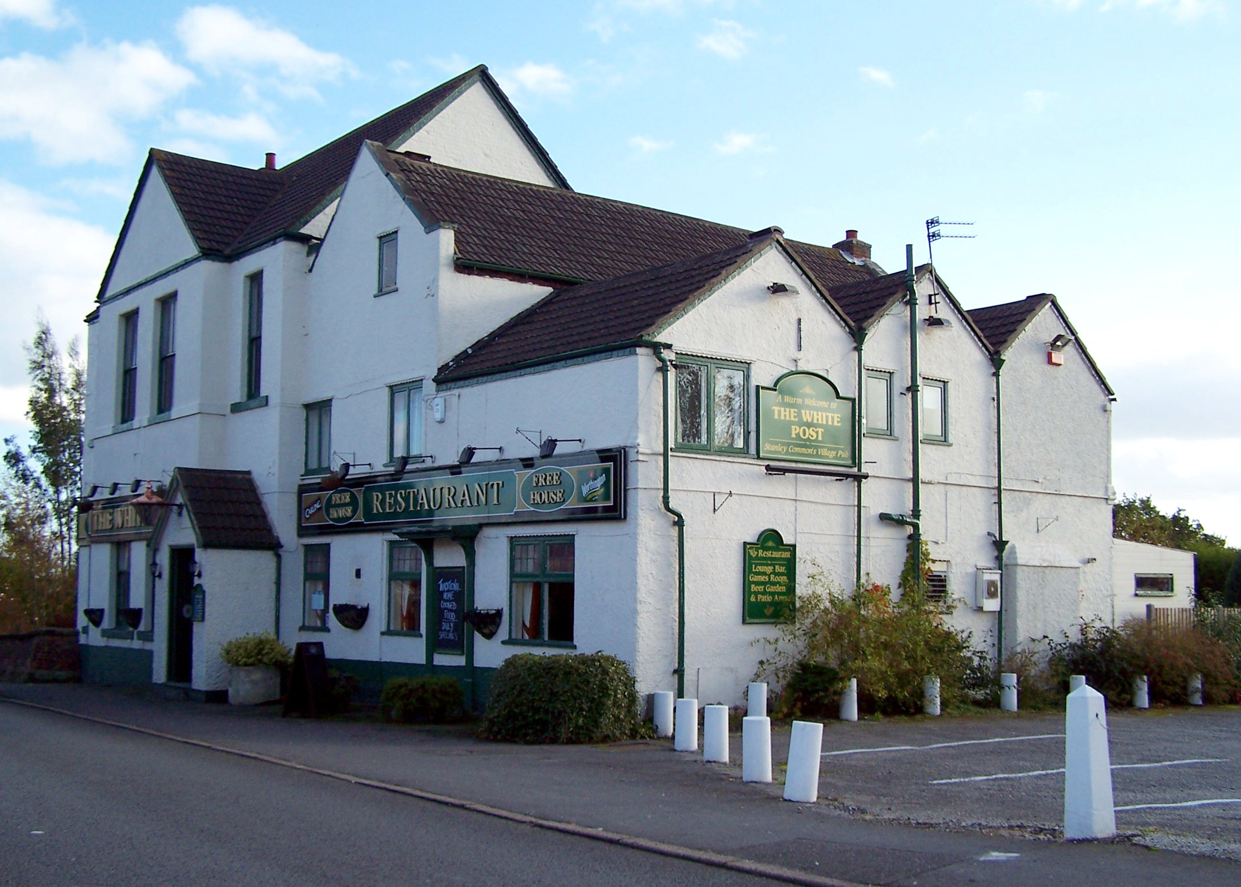 The White Posts Inn at Stanley Common, Derbyshire